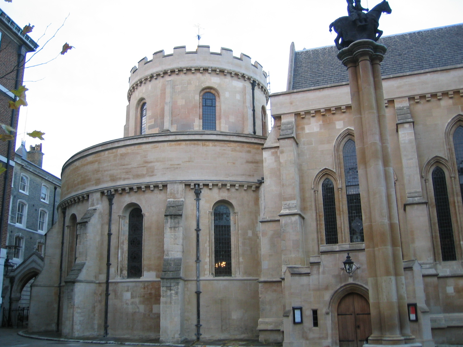 Temple Church in London - exterior view of the church